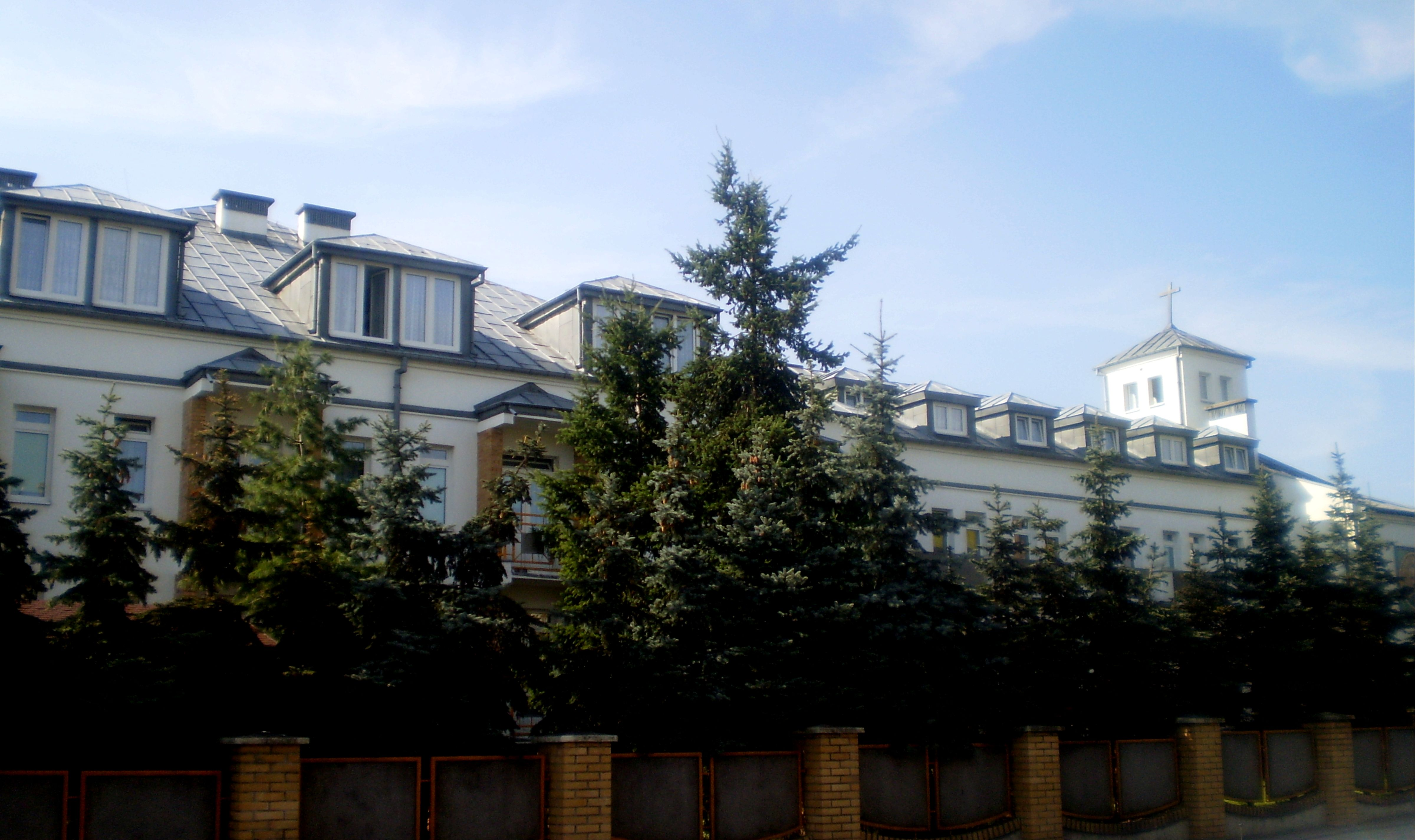 Orionist sisters house in Kolo (Poland)